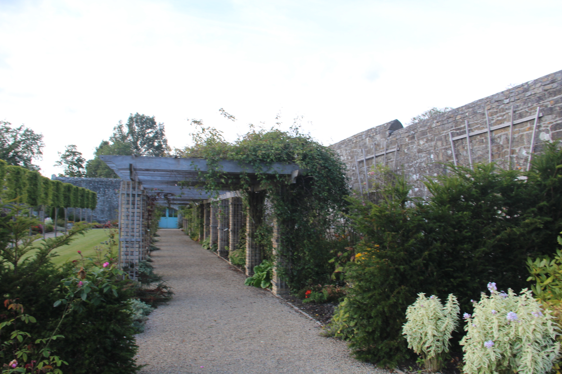 Upper level of lower walled garden